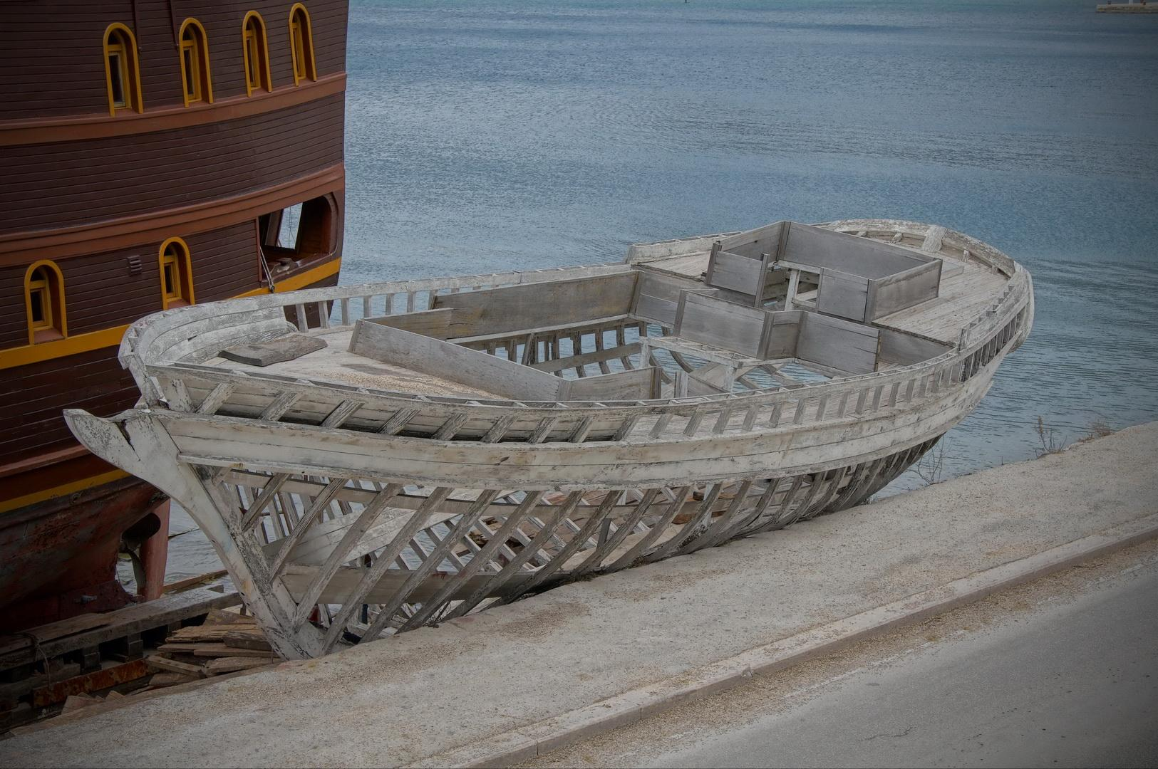 Ship frames clearly visible on an old wooden ship skeleton, captured in a small ancient shipyard called Loger[1] in Omiš